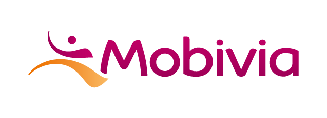 Mobivia's logo